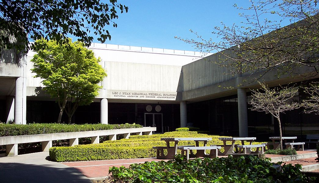 Leo J. Ryan Memorial Federal Building, National Archives and Records Administration, San Bruno, California - Entrance